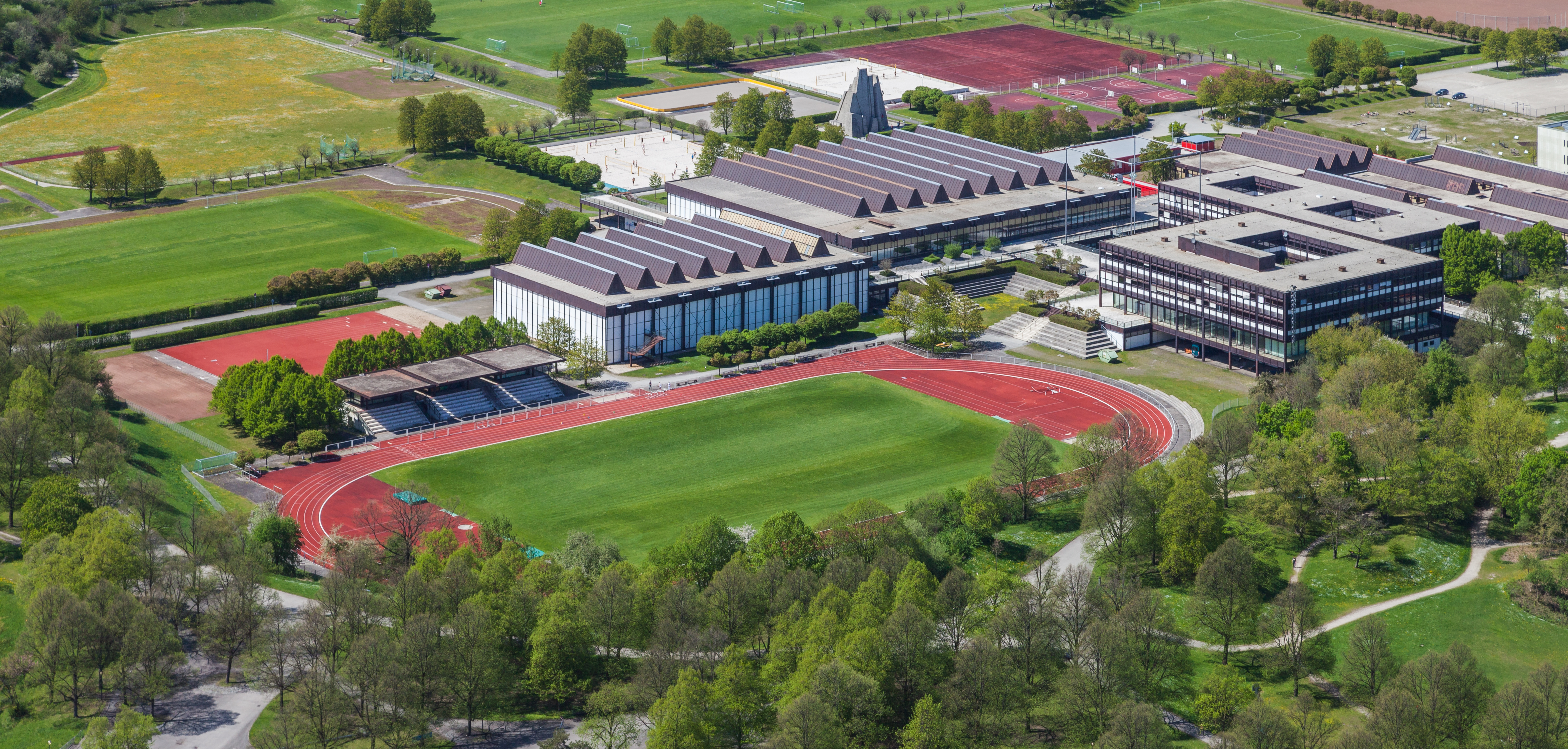 University Sport Center, Olympiapark, Munich, Germany